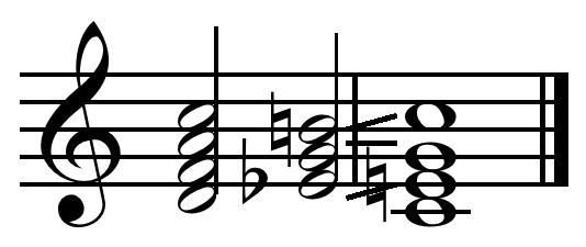 III+ as dominant substitute in ii-V-I turnaround.